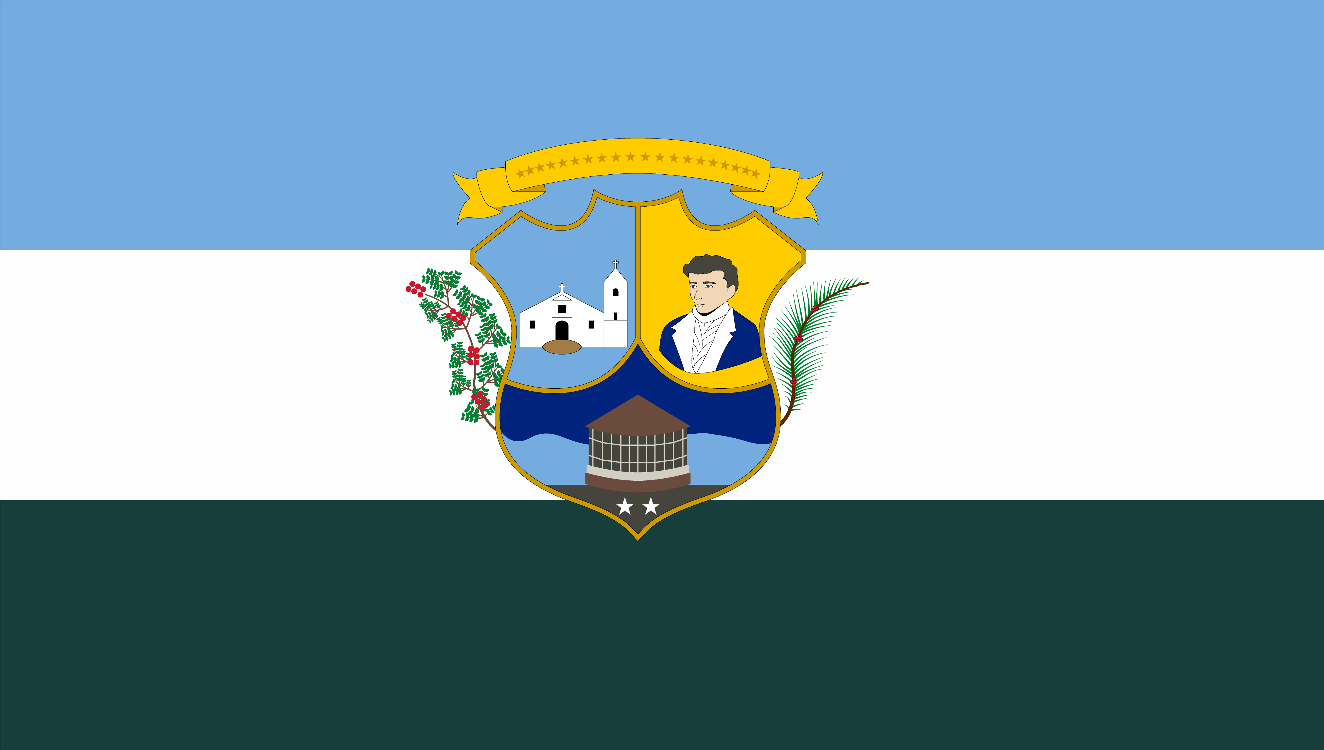 Flag of the Píritu Municipality, Anzoátegui State, Venezuela